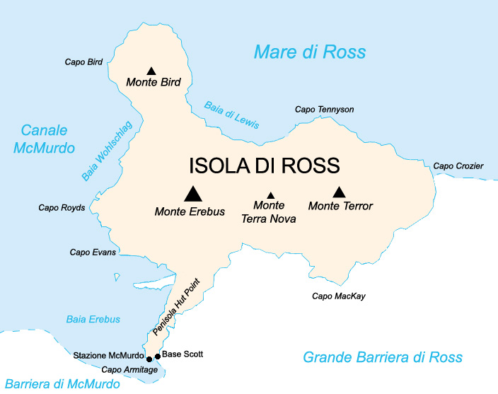 A map of he Ross Island